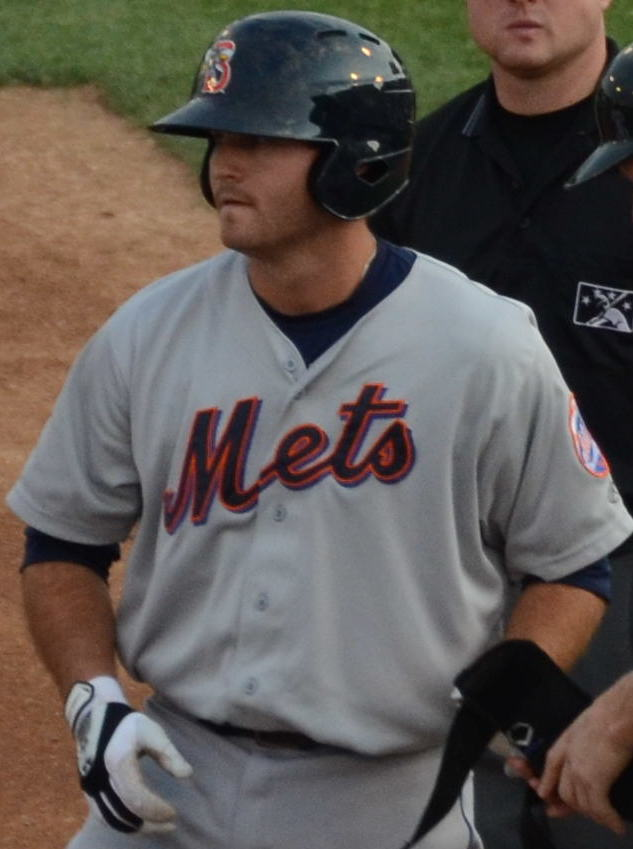 Reese Havens of the Binghamton Mets stands on first base after hitting a single during a 2012 game at Arm & Hammer Park in Trenton, New Jersey